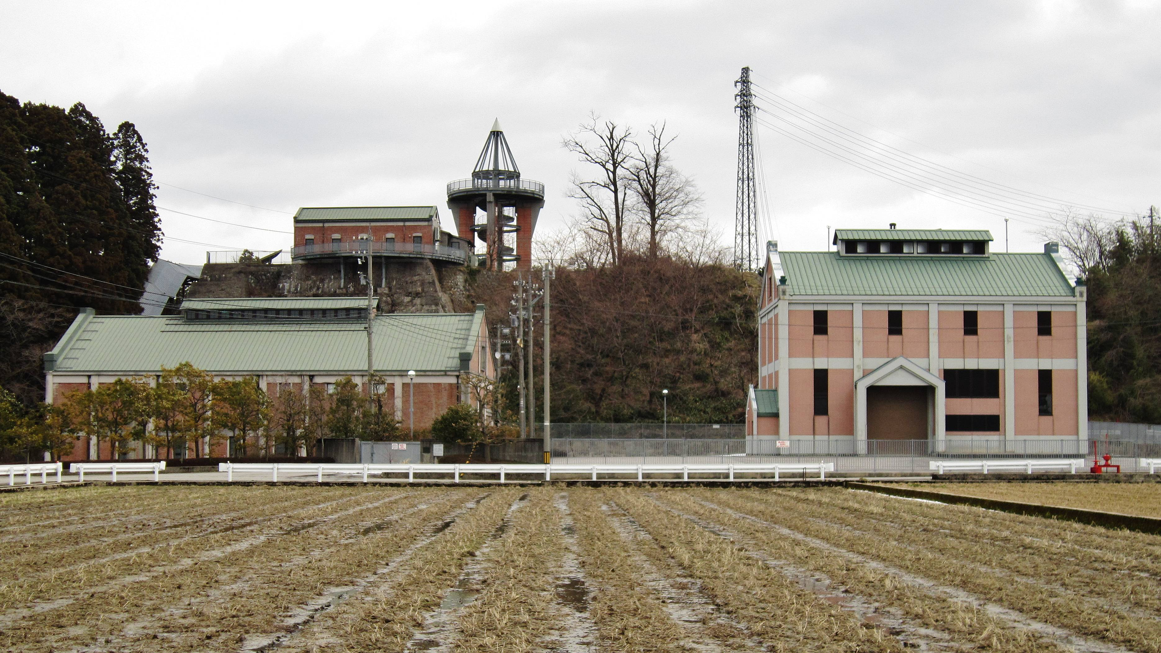 Kokutō III power station (right) and Nizayama Forest Art Museum (left).